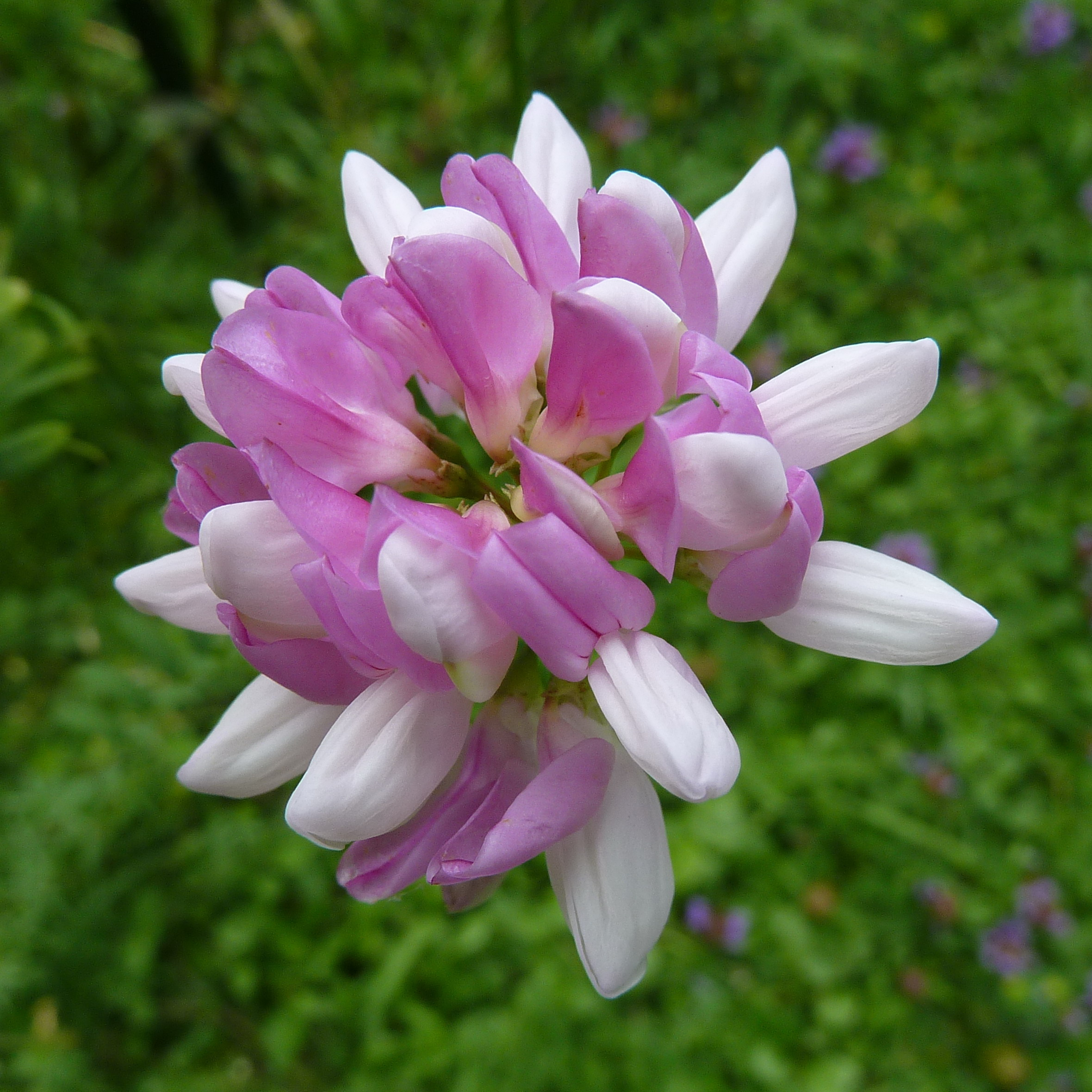 Blossom of Crown vetch